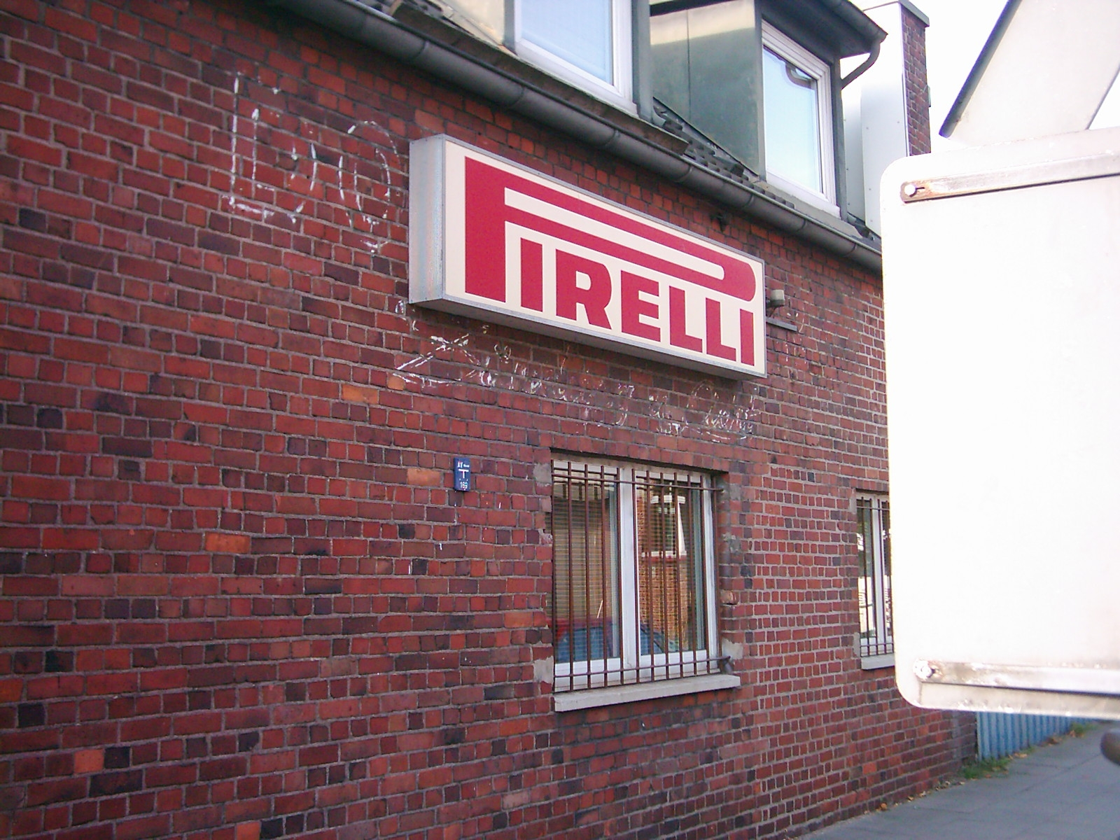 Illuminated advertising Pirelli, Hamburg, Germany.